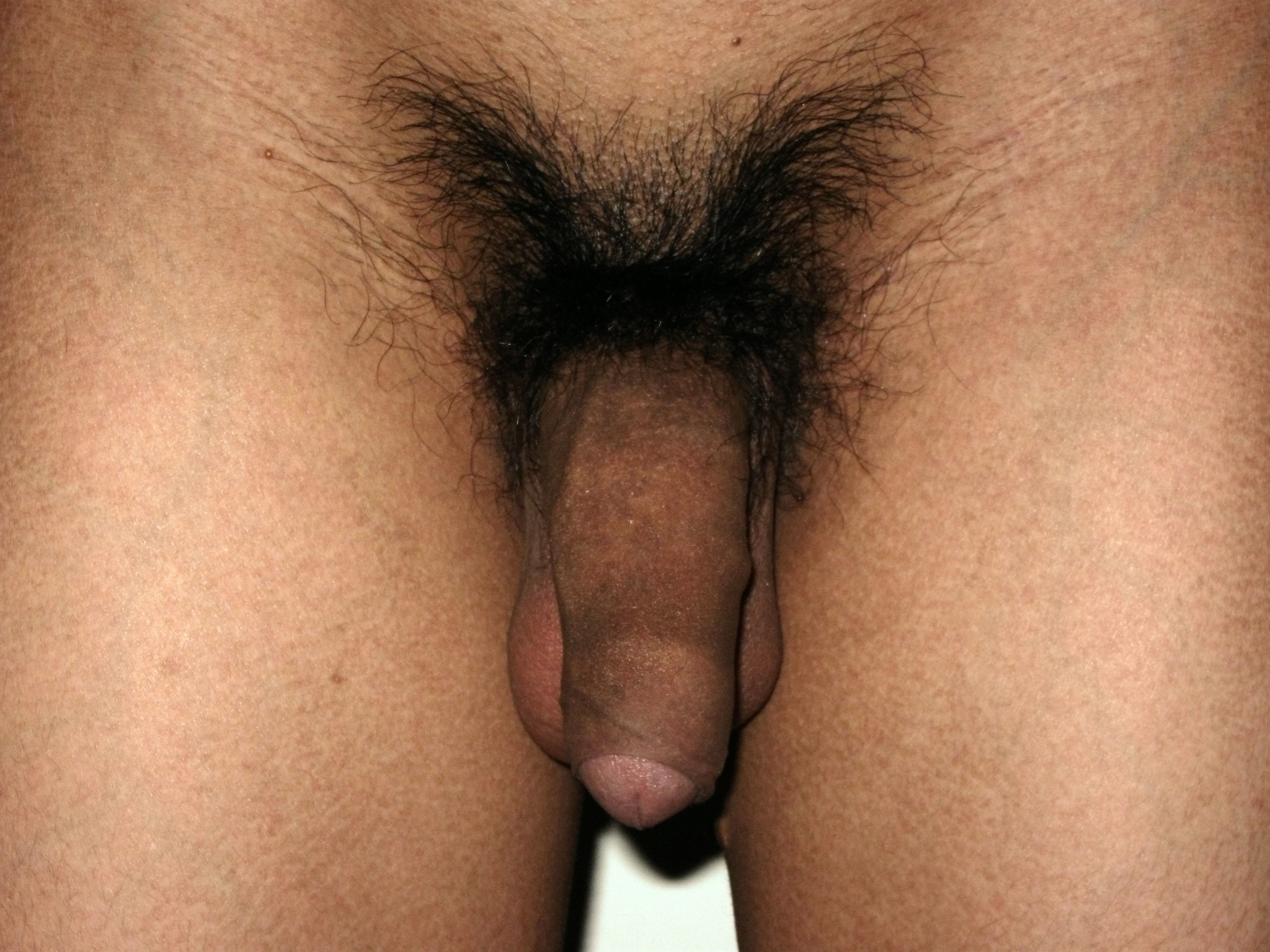 East male pubic hair